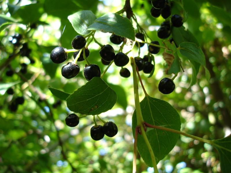 Photo "maqui" (chile)